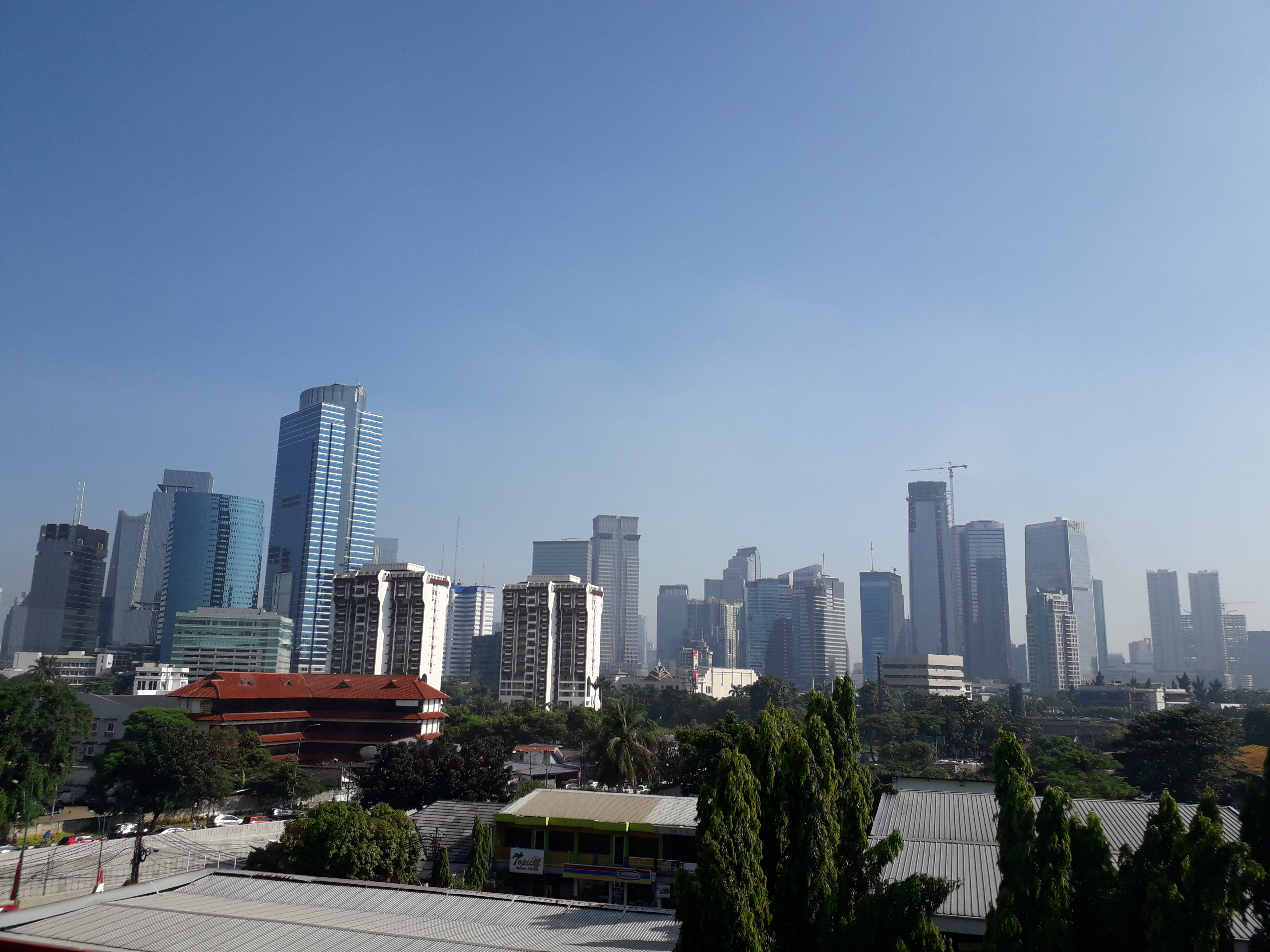 Jakarta Skyline for Kuningan area from Transjakarta Corridor 13 (between Rawa Barat and Tendean Station).